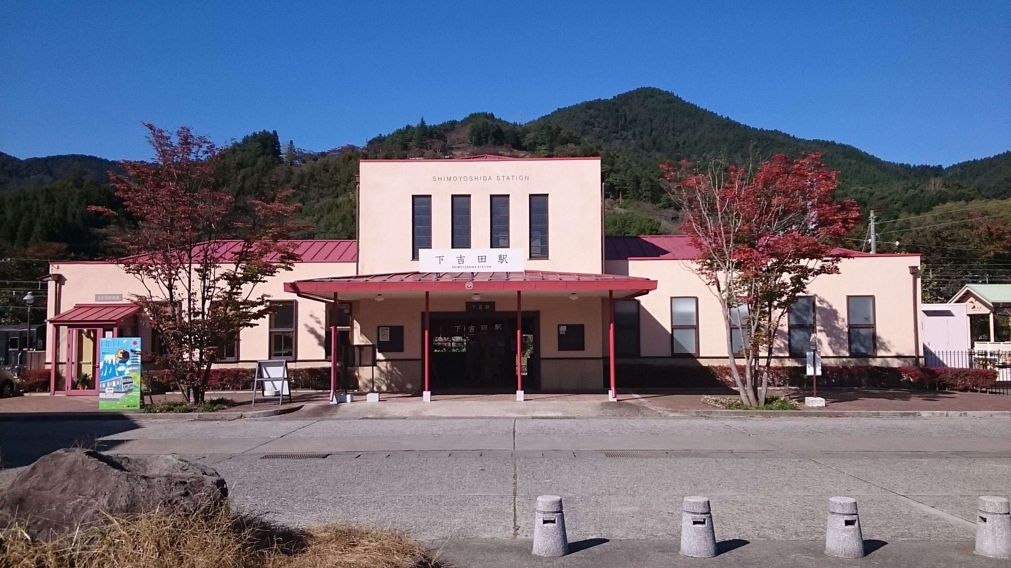 The entrance to Fujikyuko Shimoyoshida Station on the Ōtsuki Line in Fujiyoshida, Yamanashi, Japan